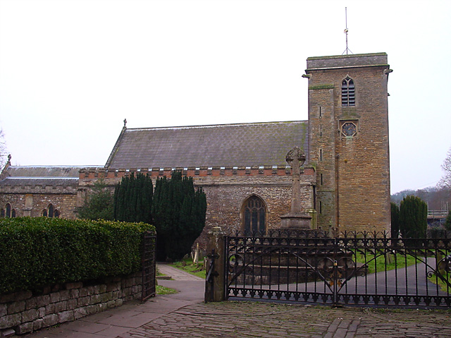 Henbury Parish Church. Looking south east towards the church over a cobbled lane.